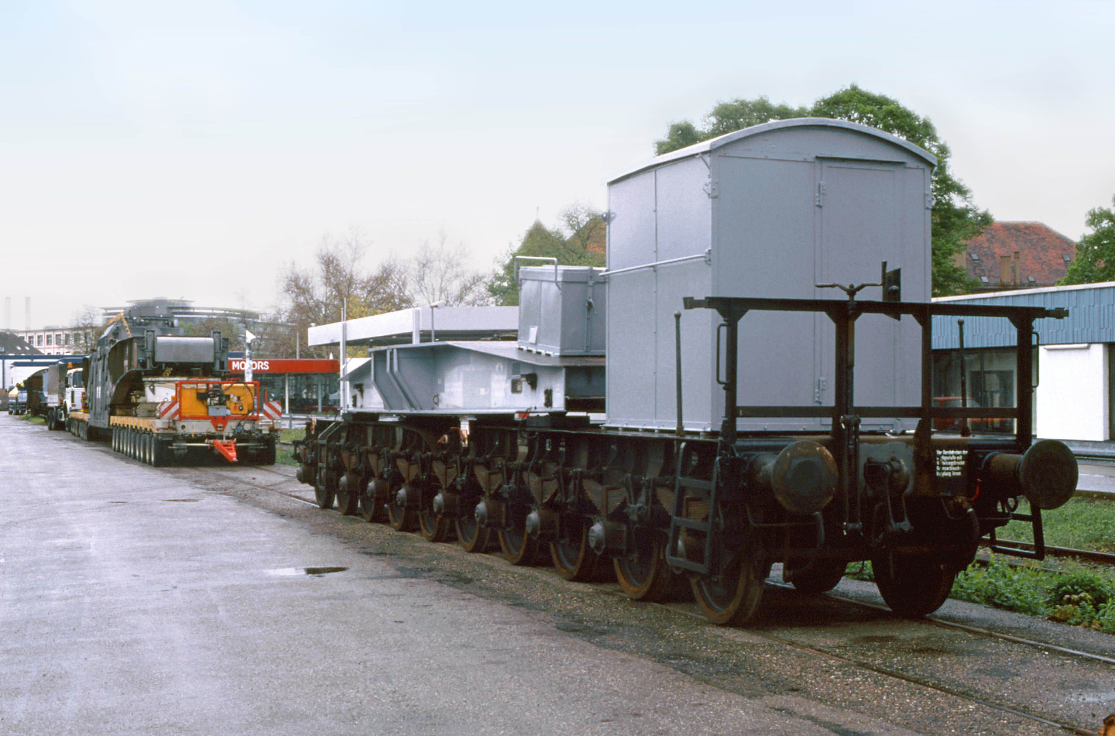 Deutsche Bahn AG heavy-load car, class Uaai 687.9 number 9960005 seen in Heilbronn Süd.